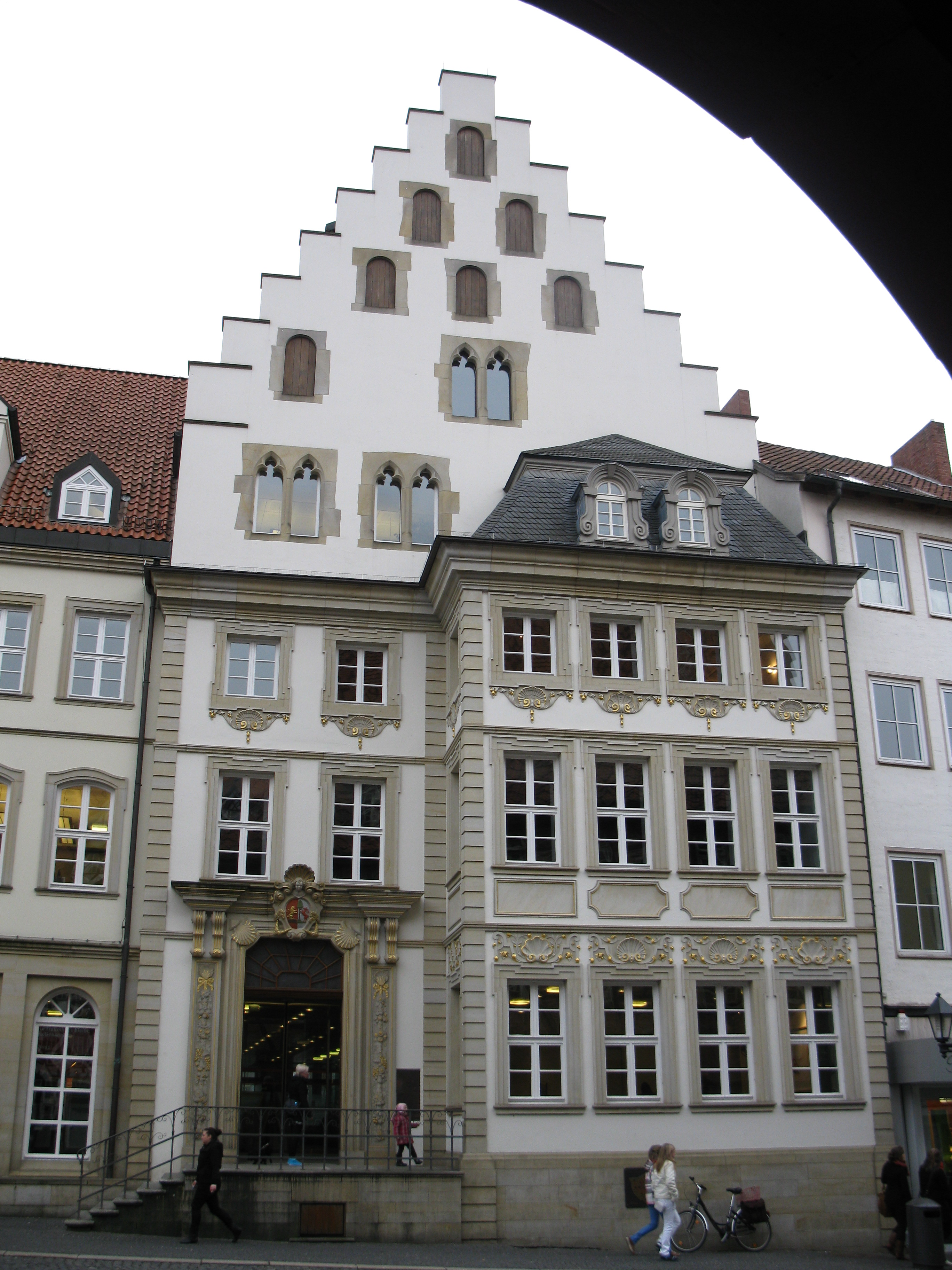 Rolandhaus, Market Place, Hildesheim